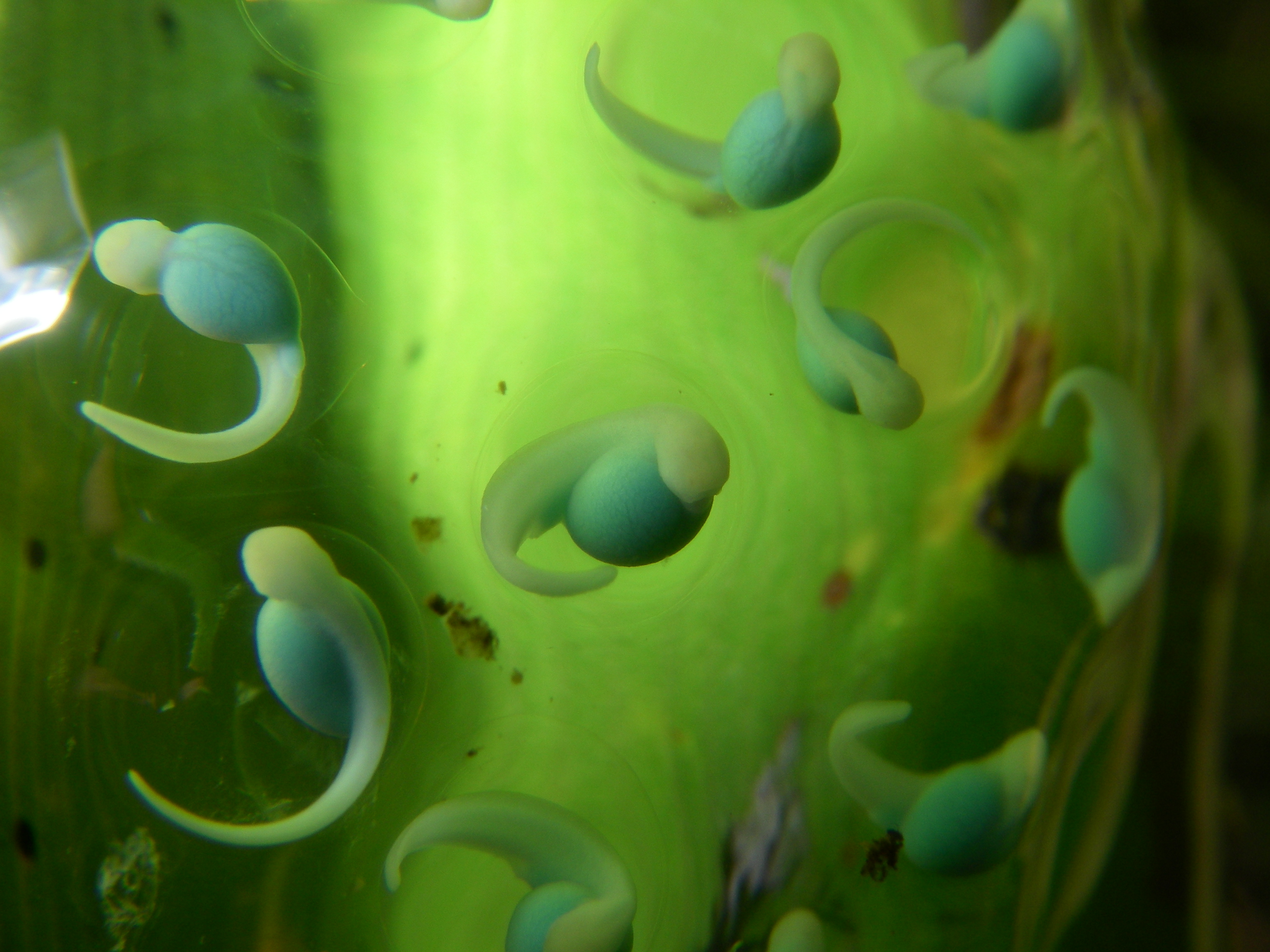 Tadpoles (embryos) of Guibemantis pulcher (Mantellidae), attached to Pandanus leaf; picture from Ranomafana National Park